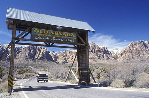 Roadside entrance to Bonnie Springs Ranch, near Las Vegas, Nevada.